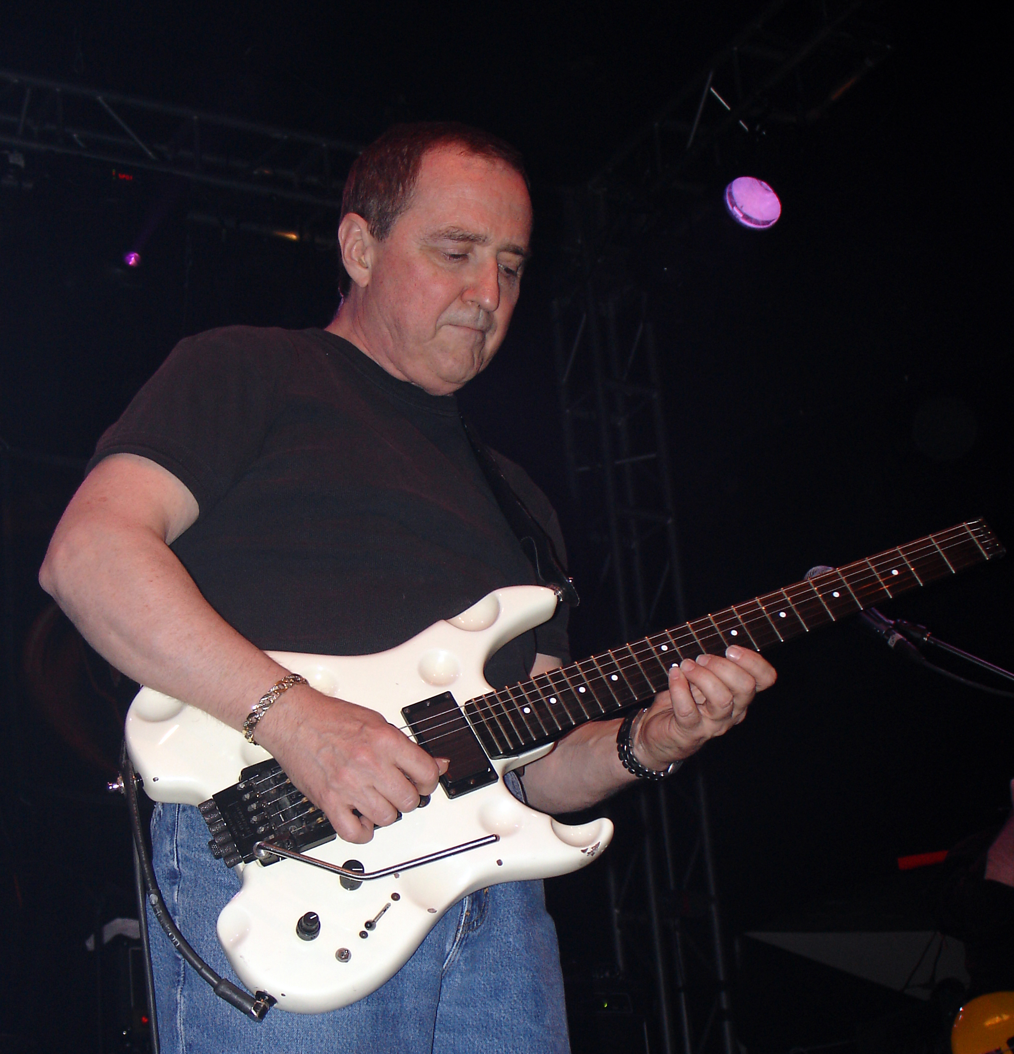 Blue Oyster Cult